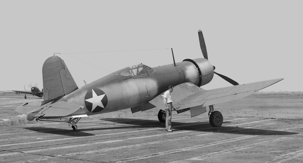 A Vought F4U-1 Corsair, a "Birdcage", so called for the canopy framing around the cockpit. Several F4Us were flown by the National Advisory Committee for Aeronautics (NACA), Langley Research Center at Hampton, Virginia (USA), but this F4U-1 only flew at Langley for two months in 1943 before going to the U.S. Navy at Norfolk Naval Air Station.